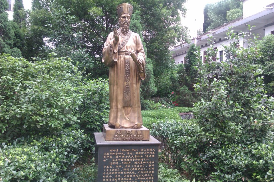 Matteo Ricci in Nanchang